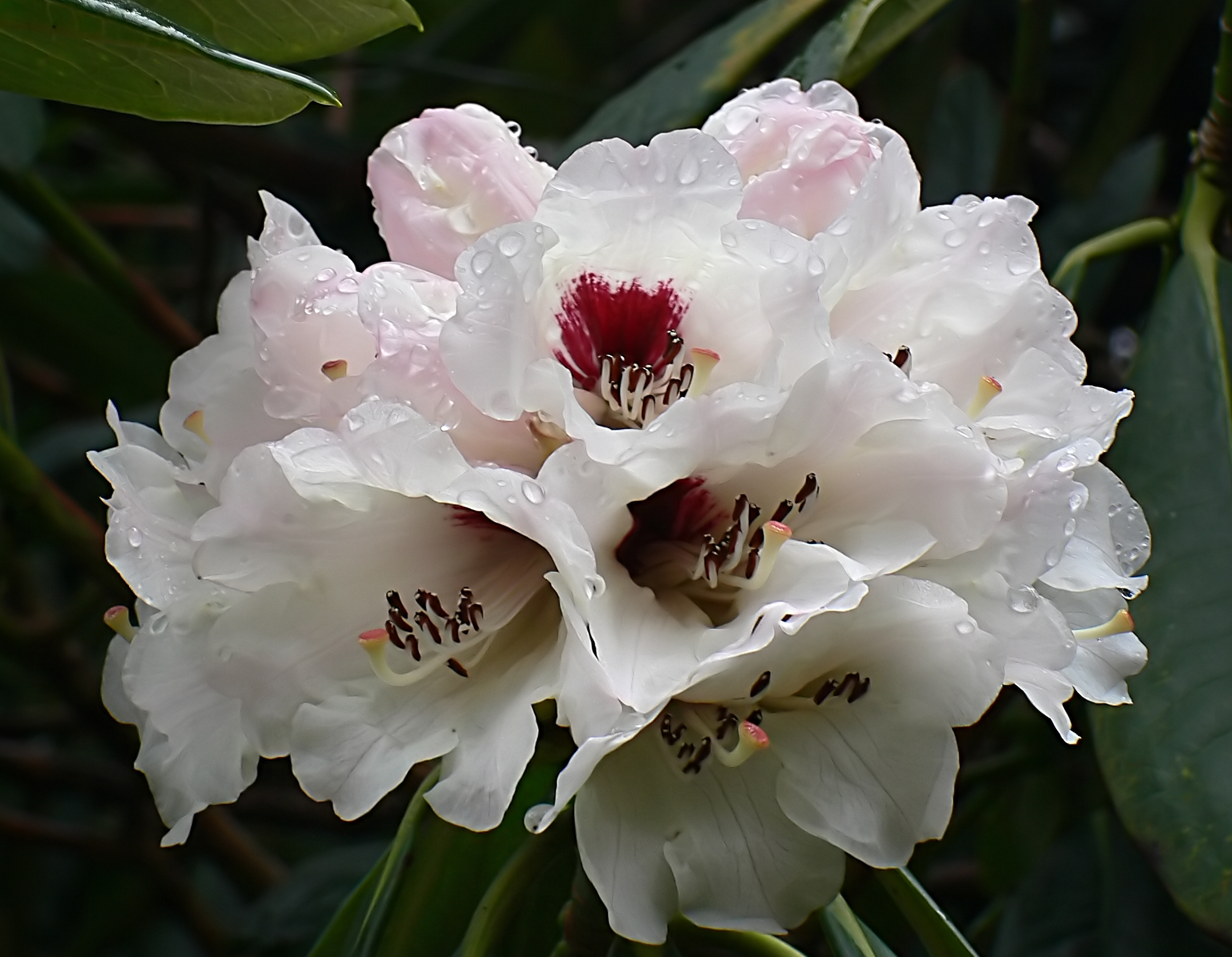 Rhododendron grande is a rhododendron species with a native range from eastern Nepal, Sikkim, Bhutan into central Arunachal Pradesh and southern Tibet. It grows at altitudes of 2100-3200 meters and reaches 6-15 meters in height in mixed forests. Flowers vary from cream to yellow to pink, spotted with a blotch on the top petal.